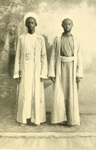 Two Somali headmen, Aja Achmet Wasama and Dualla Idris.